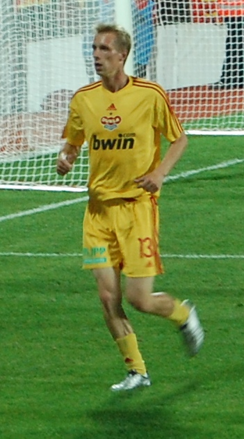 Tomáš Berger of FK Dukla Praha (Dukla Prague) during the match against FK Viktoria Žižkov